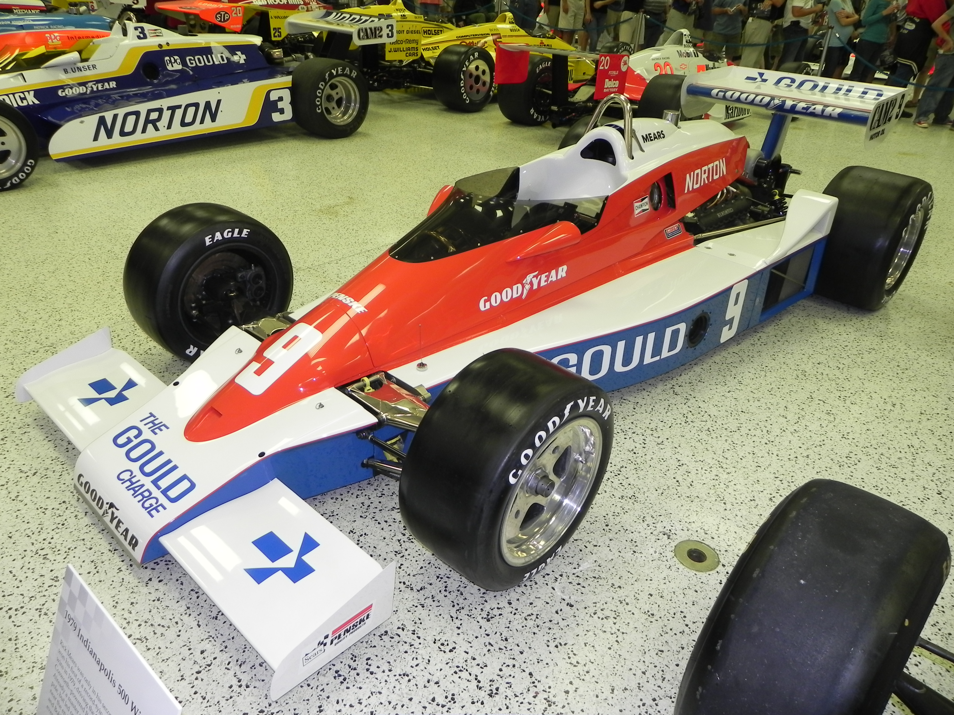 Image of the winning car of the 1979 Indianapolis 500 (Rick Mears). Photo was taken at the Indianapolis Motor Speedway Hall of Fame Museum, during the month of May 2011, at the 100th Anniversary "Ultimate Indianapolis 500 Winning Car Collection."